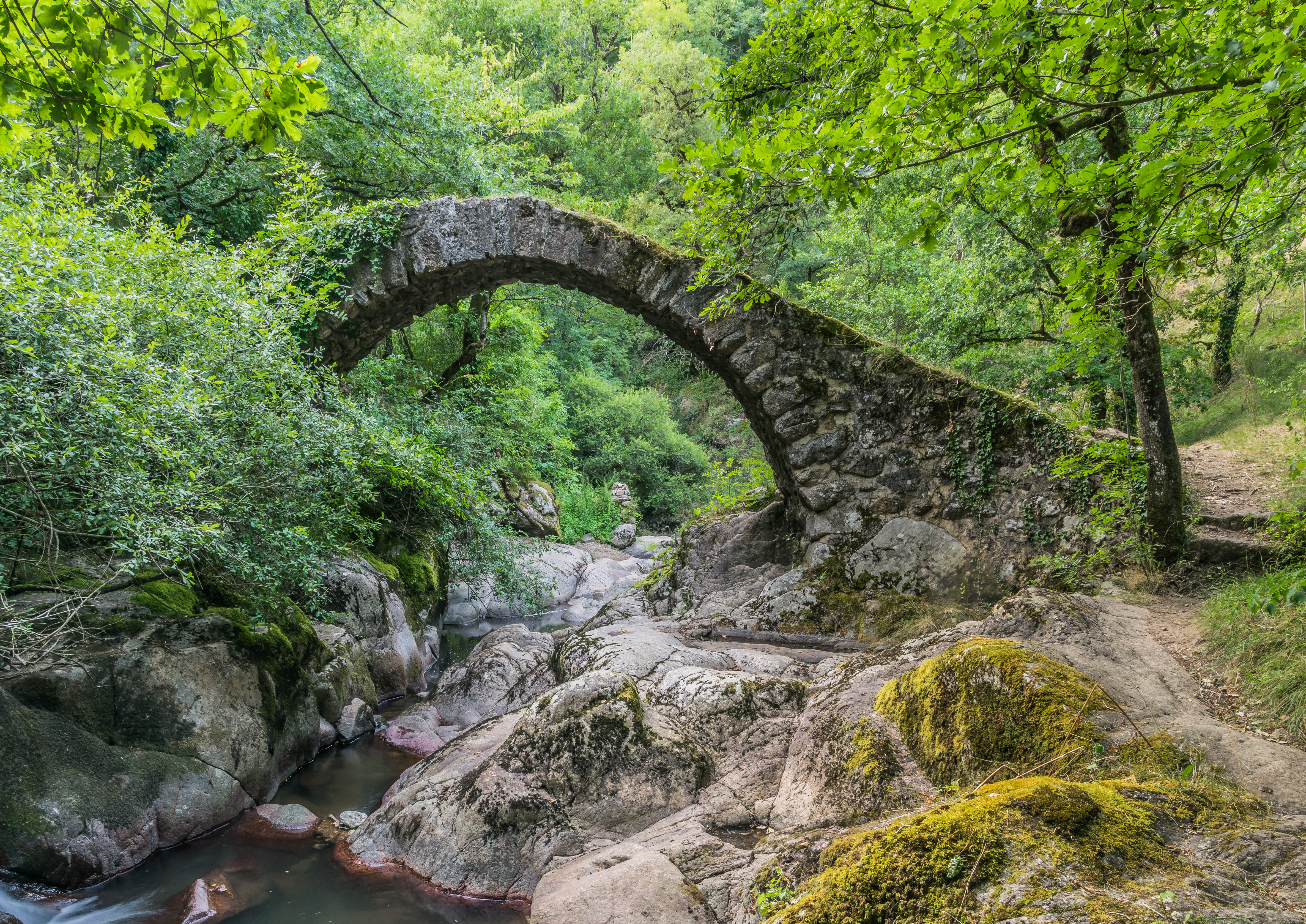 Pont du Parayre in Peyrusse-le-Roc, Aveyron, France